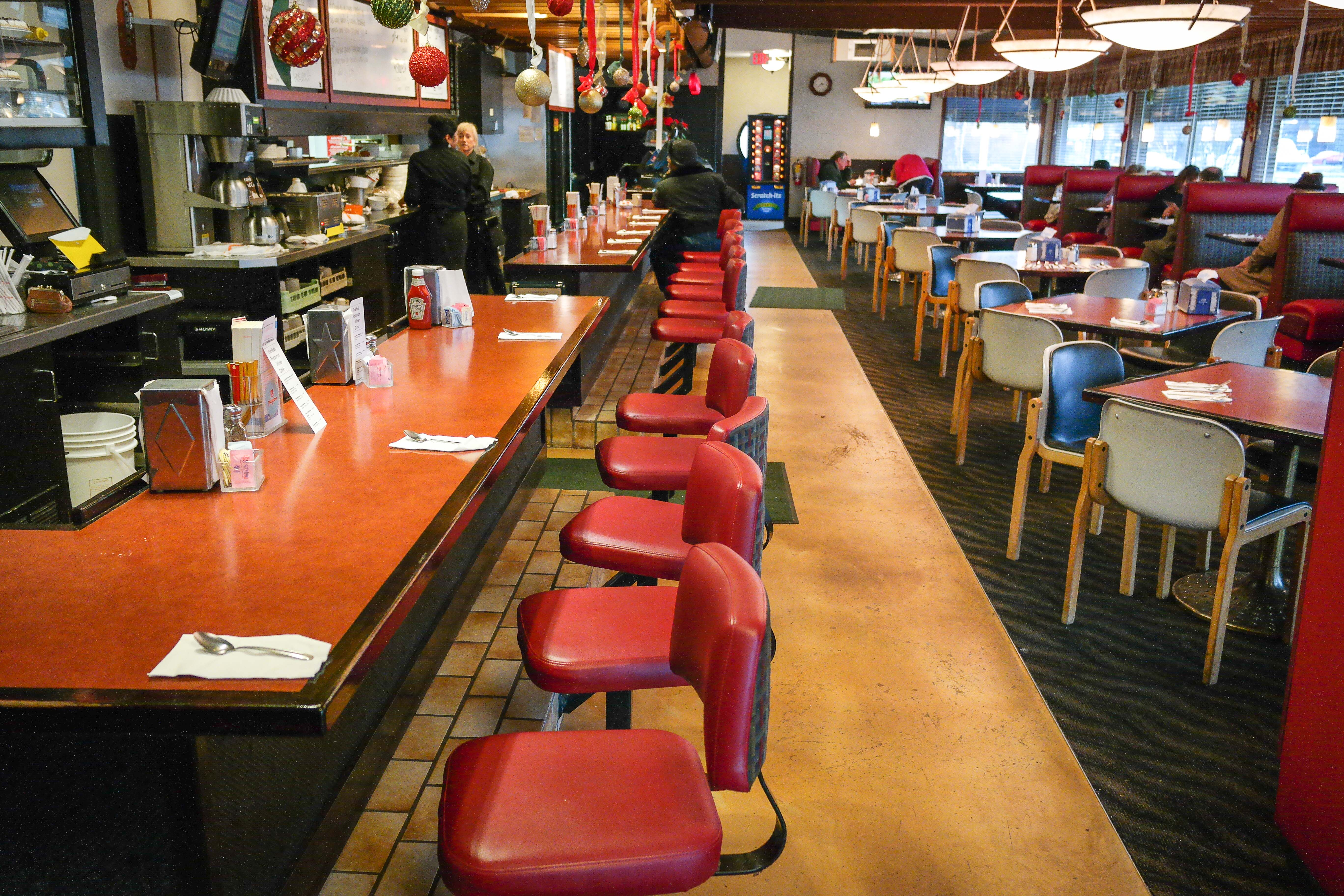 The lunch counter at the Overlook Restaurant in Portland, Oregon